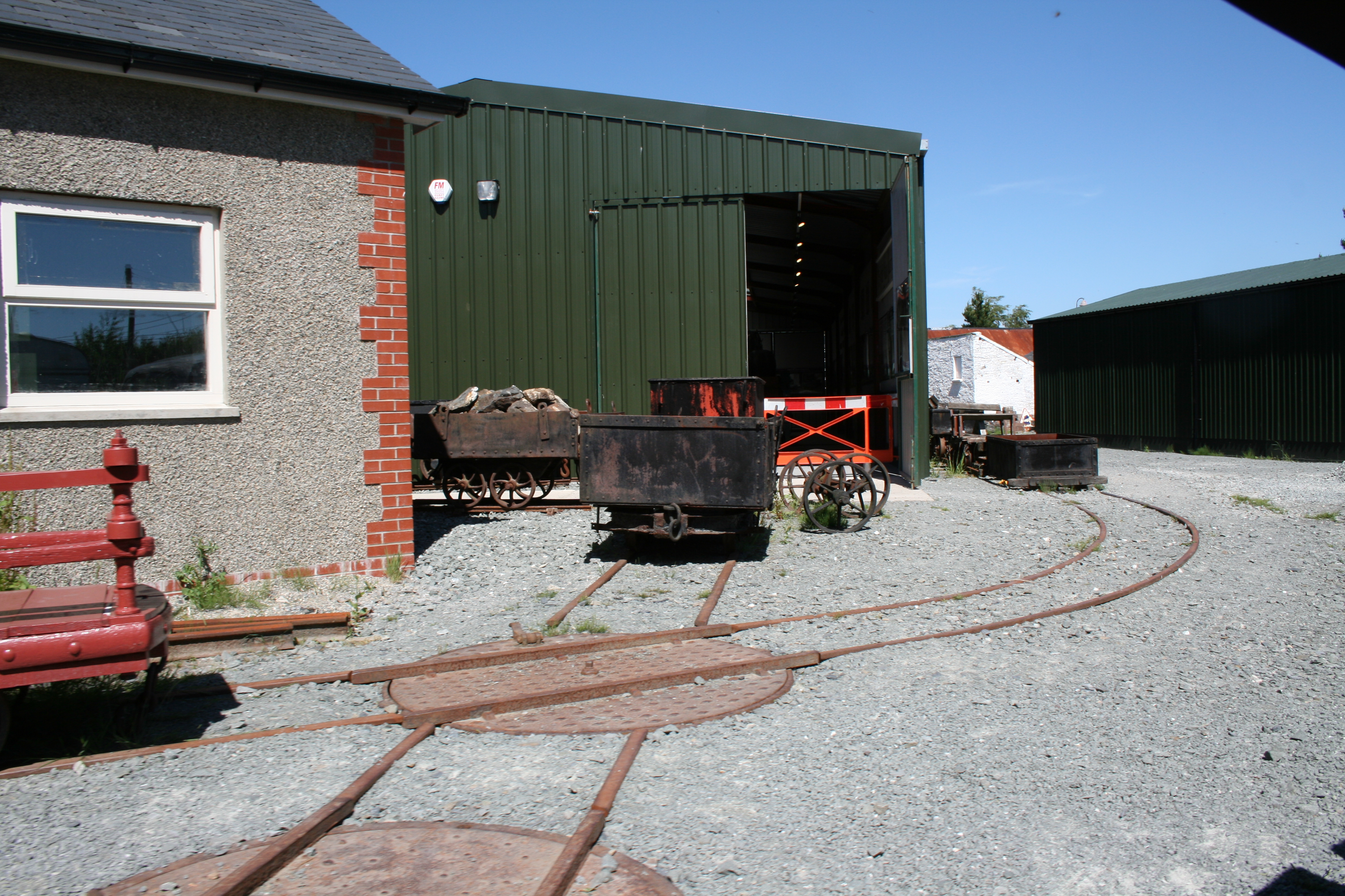 Light railway turntable at the WHHR's Gelert's Farm museum.